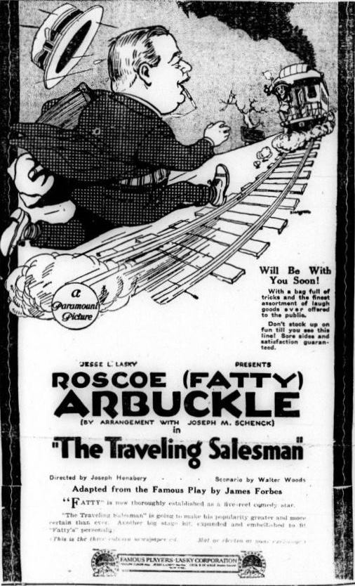 Advertisement for the American comedy film Traveling Salesman (1921) with Roscoe Arbuckle, on page 42 of the April 22, 1921 Variety.